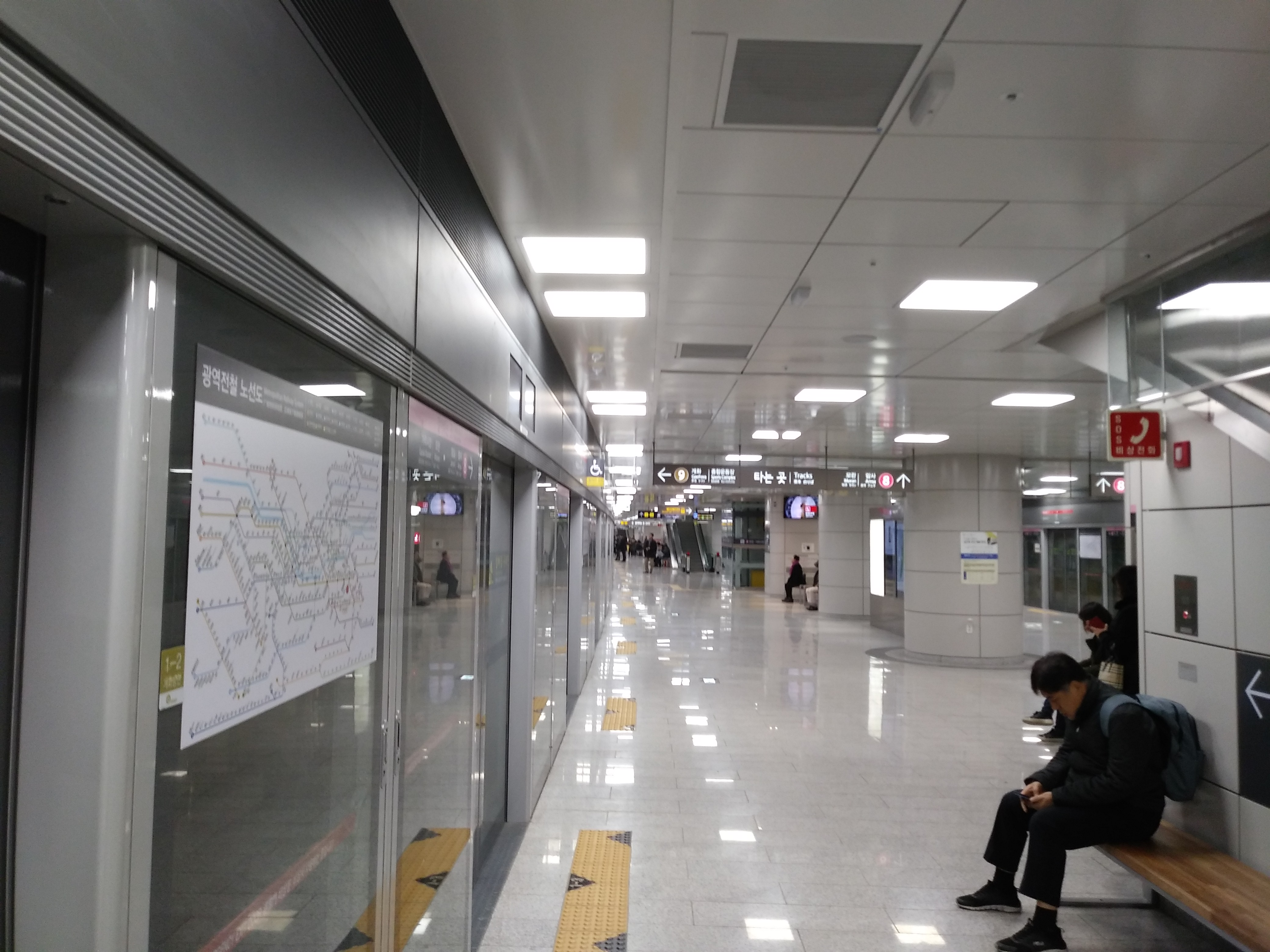 A scenery of Seoul Subway Line 9 Seokchon Station Platform